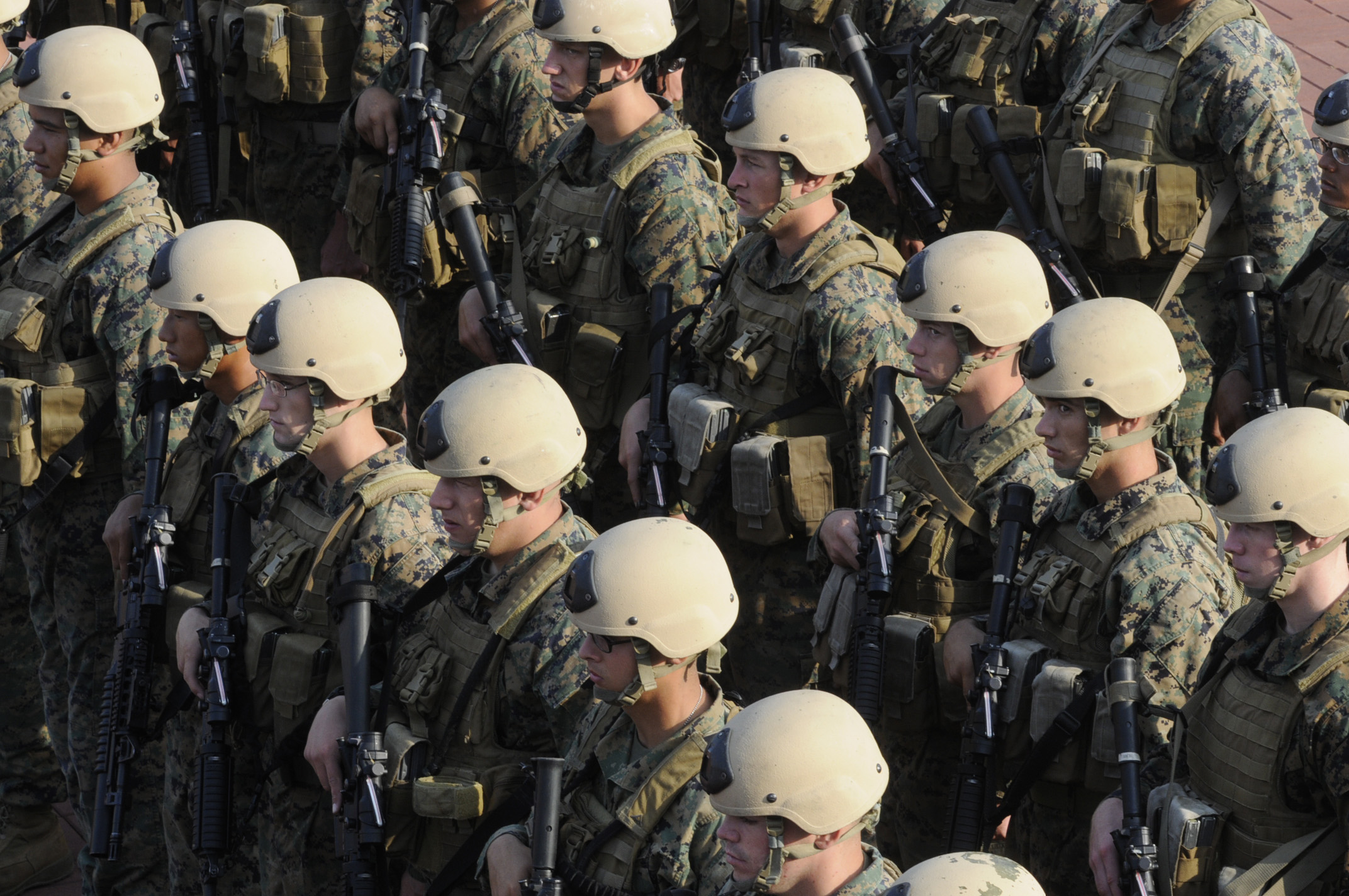 BUSAN, Republic of Korea (Aug. 29, 2009) Marines from Fleet Anti-terrorism Security Team Pacific (FASTPAC) stand by for an inspection by the Secretary of the Navy the Honorable Ray Mabus during his tour of the amphibious command ship USS Blue Ridge (LCC 19). Blue Ridge, embarked 7th Fleet staff and FASTPAC hosted Mabus' first official visit to the Republic of Korea since being appointed Secretary of the Navy in May. (U.S. Navy photo by Mass Communication Specialist 1st Class Todd Macdonald/Released)